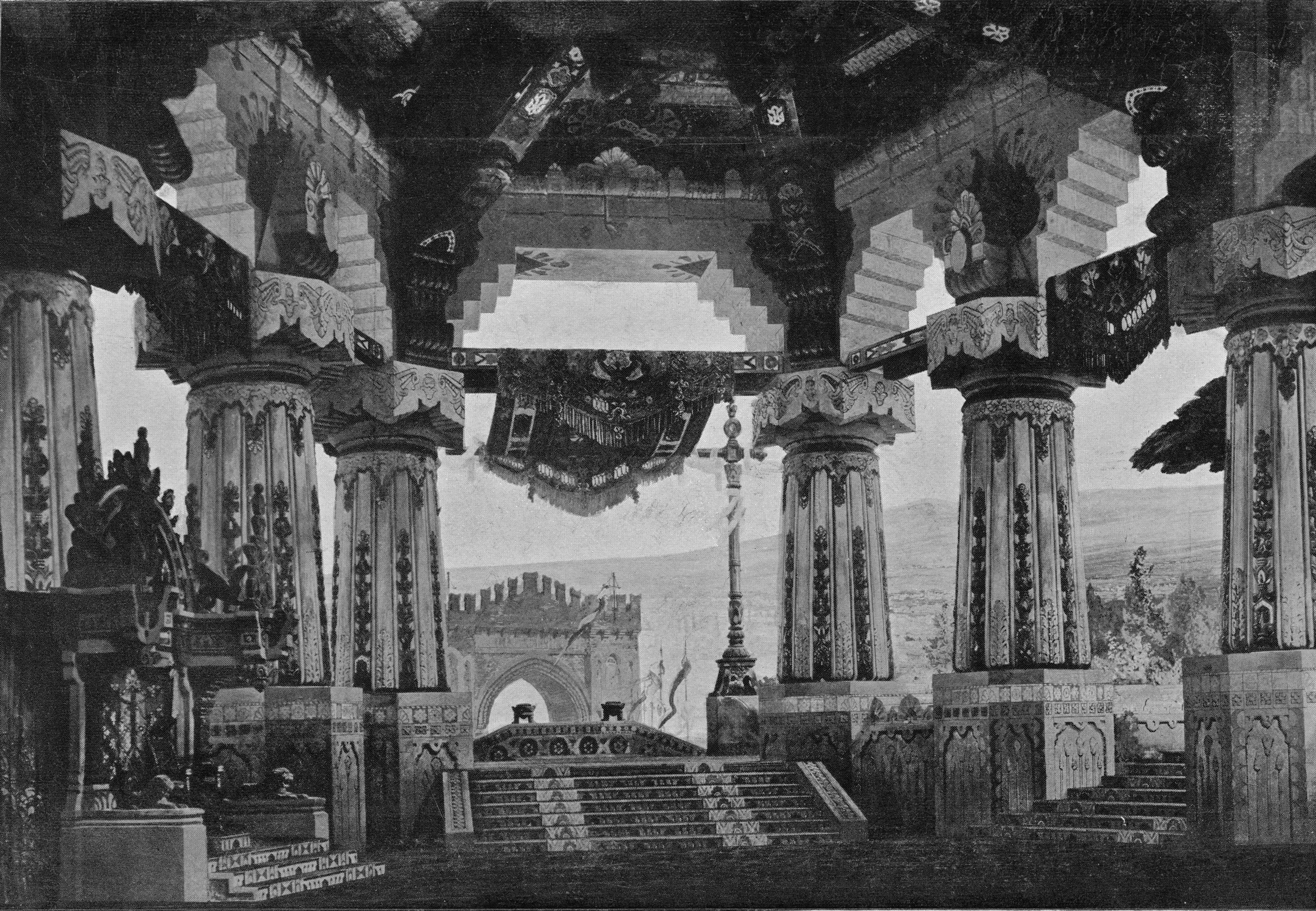 Gluck - Armide - Décor du 1er Acte - Paris, Théâtre de l'Opéra Garnier, 12-04-1905